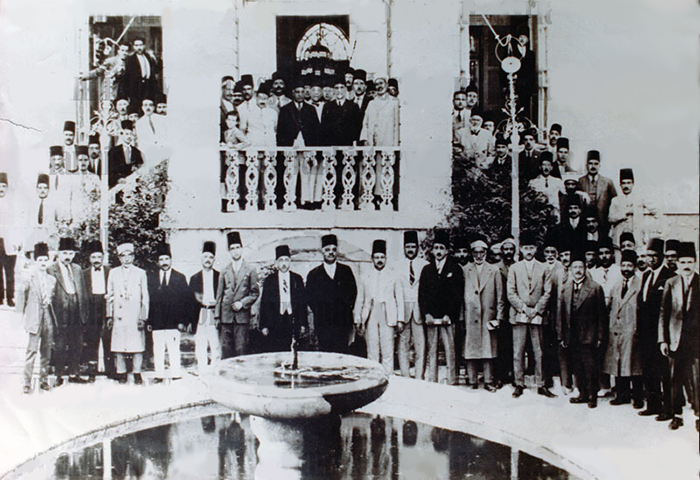 Talaat Pasha Harb with the National Bloc in Damascus – 1927